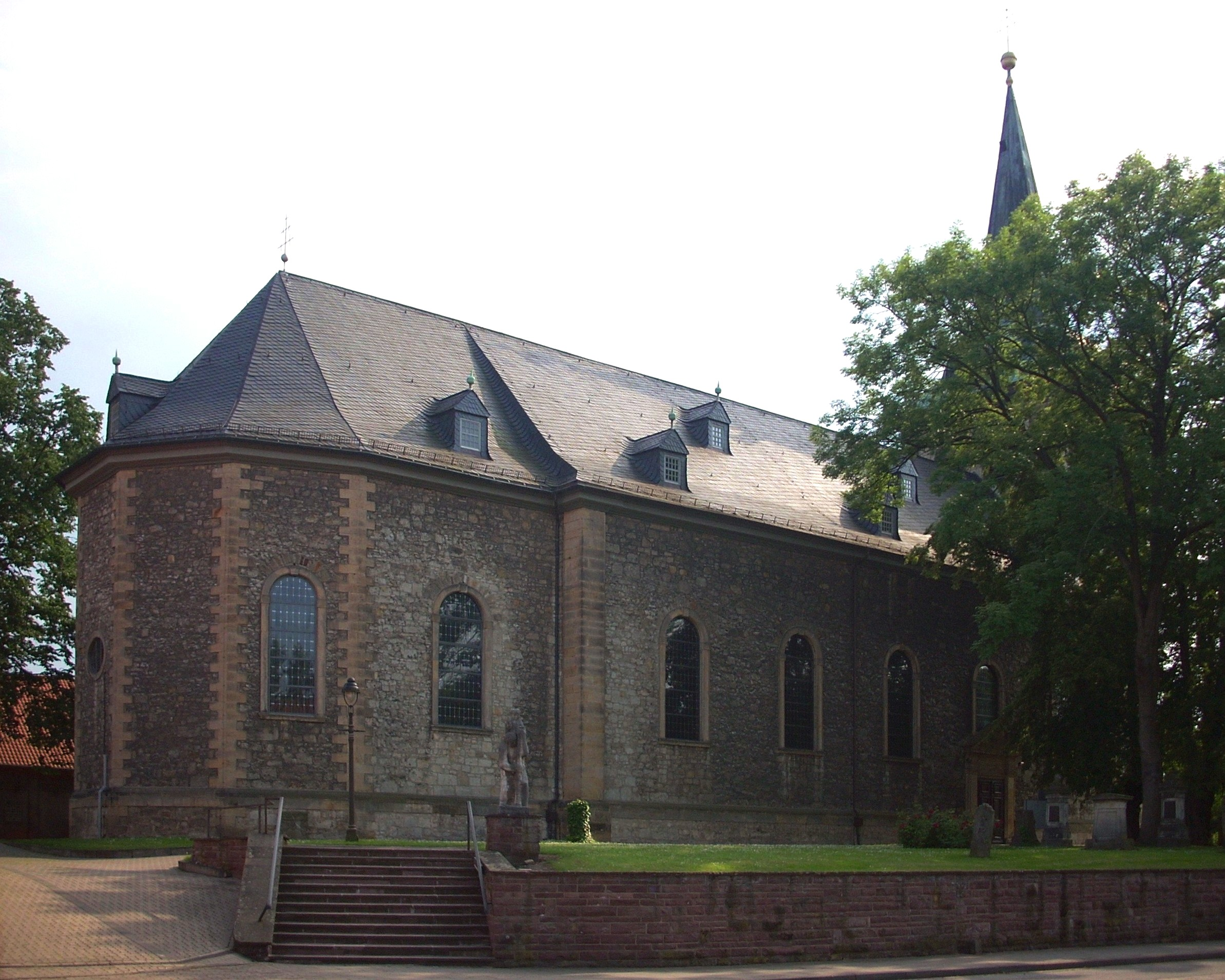 Algermissen (District of Hildesheim, Germany), St. Matthäus Catholic Church